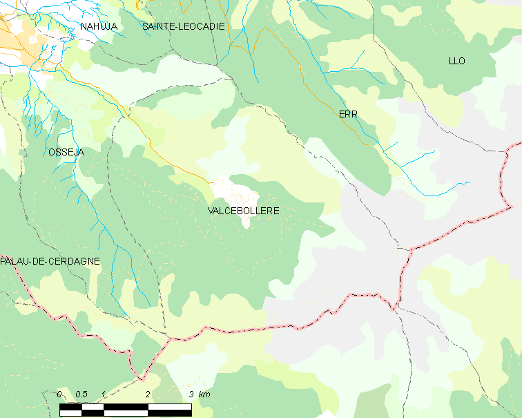 Map of French municipality